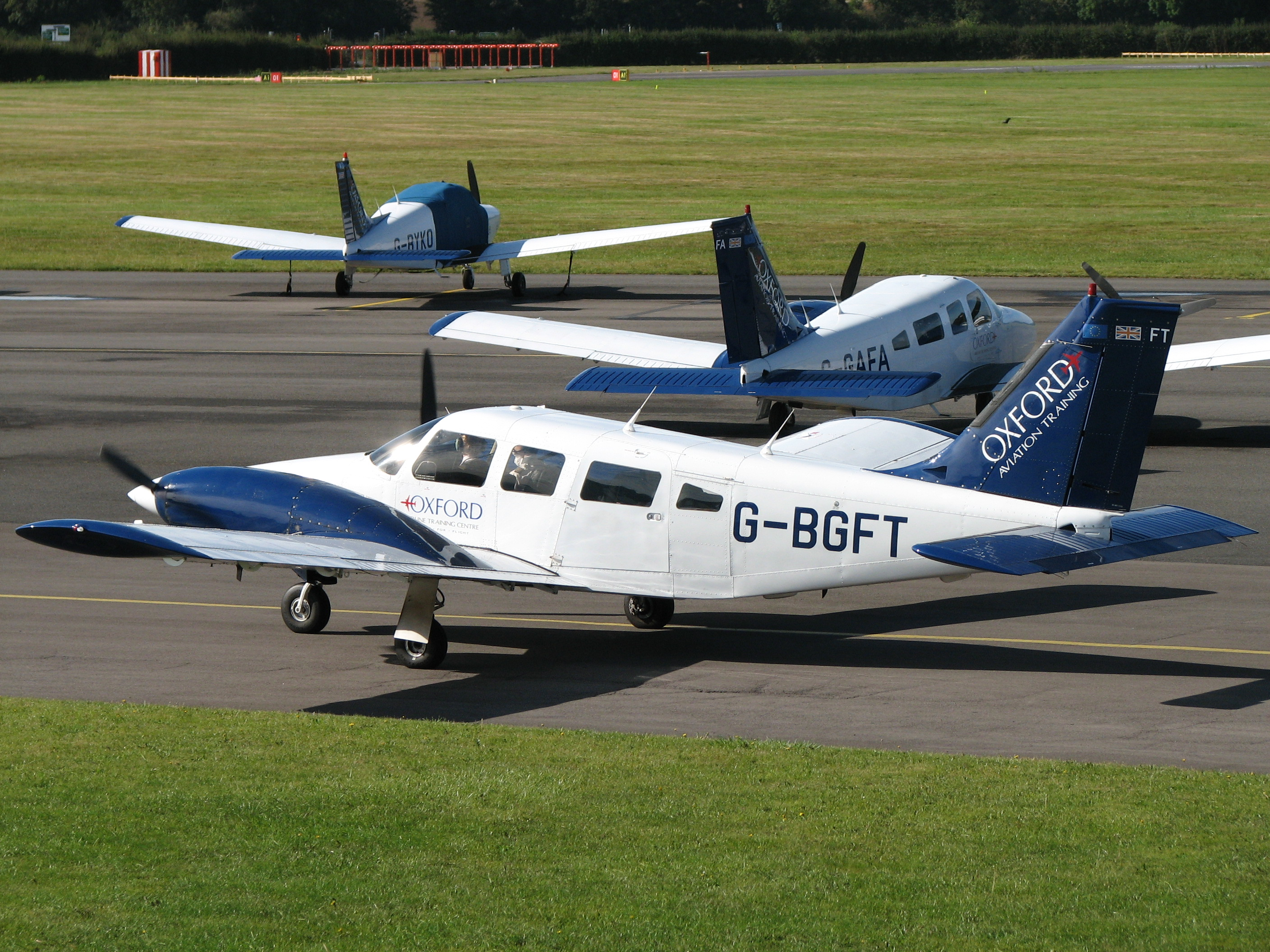 A Piper PA-34 Seneca light aircraft, registration G-BGFT, taxiing to Runway 01 at London Oxford Airport, Kidlington (ICAO Location Designator: EGTK). The aircraft pictured is owned by Oxford Aviation Academy (formerly Oxford Aviation Training). The picture was taken from the airport building using a Canon E3-S DSLR.